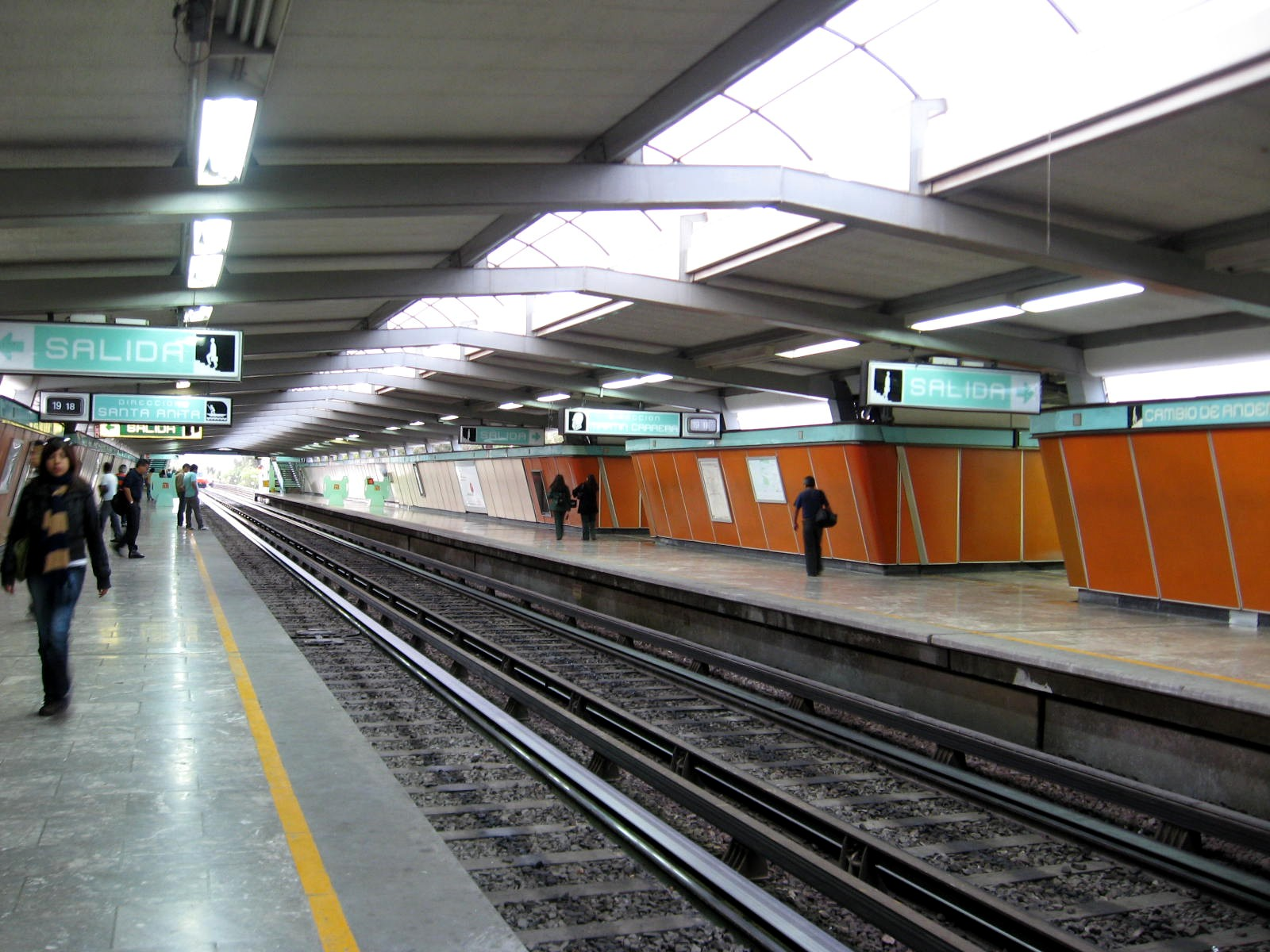 Platform looking north of Metro station Fray Servando on Line 4 of the Mexico City Metro System